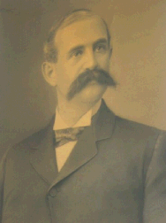 William Tharp Watson of Delaware (1849-1917). Crayon portrait; 18 3/4" x 14 3/4".